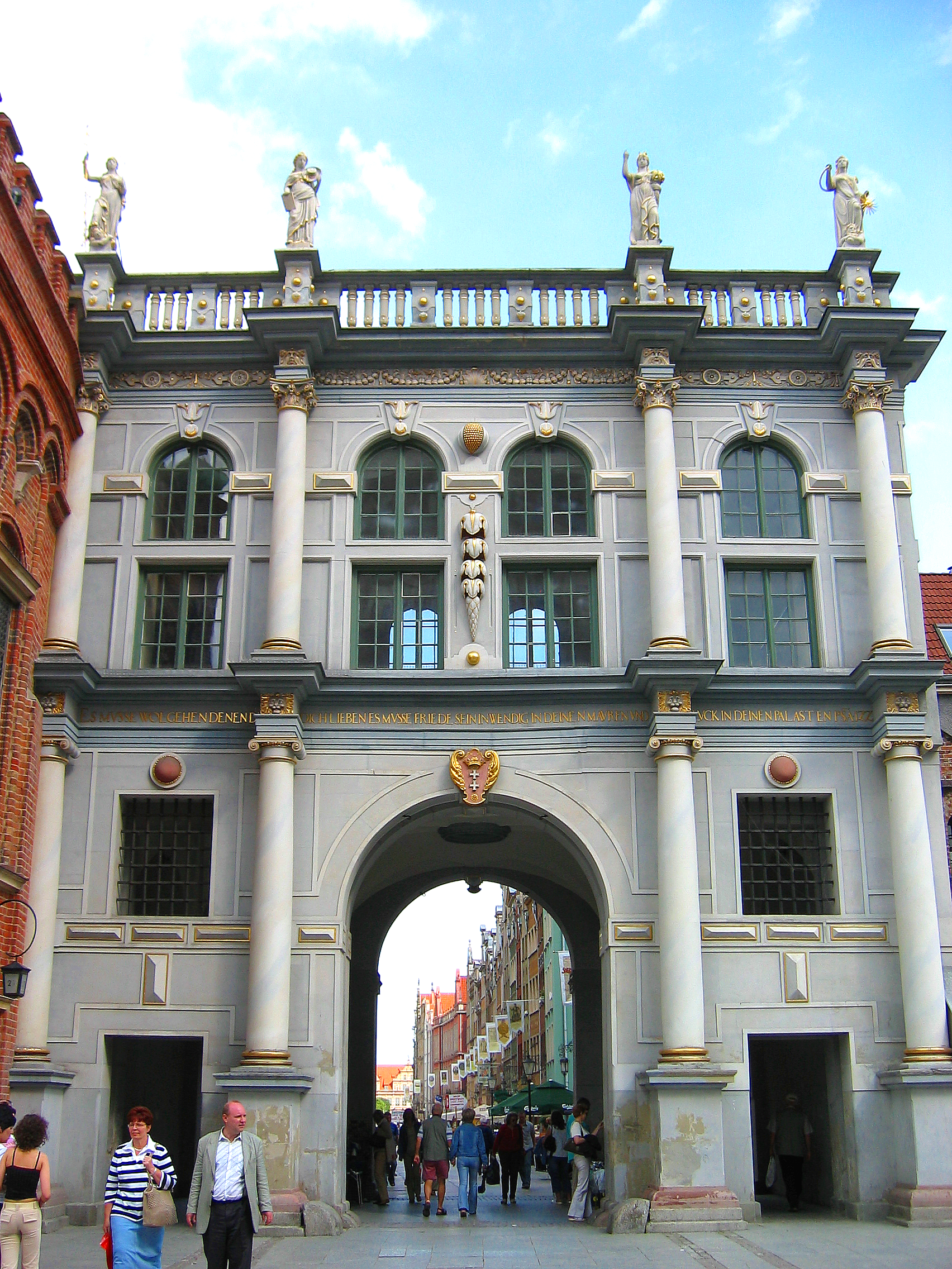 Golden Gate in Gdańsk